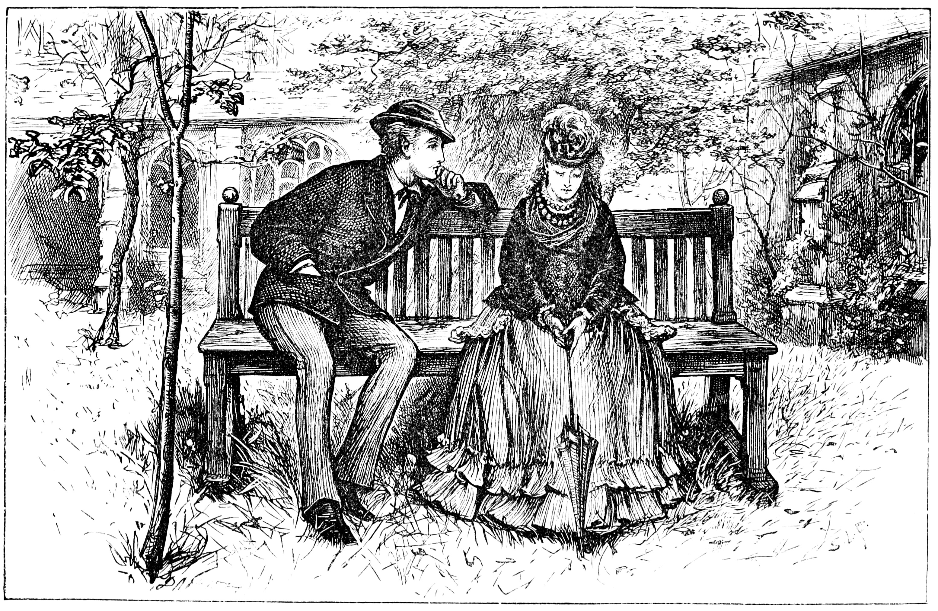 Illustration from the book, The Mystery of Edwin Drood, written by Charles Dickens, illustrated by Luke Fides